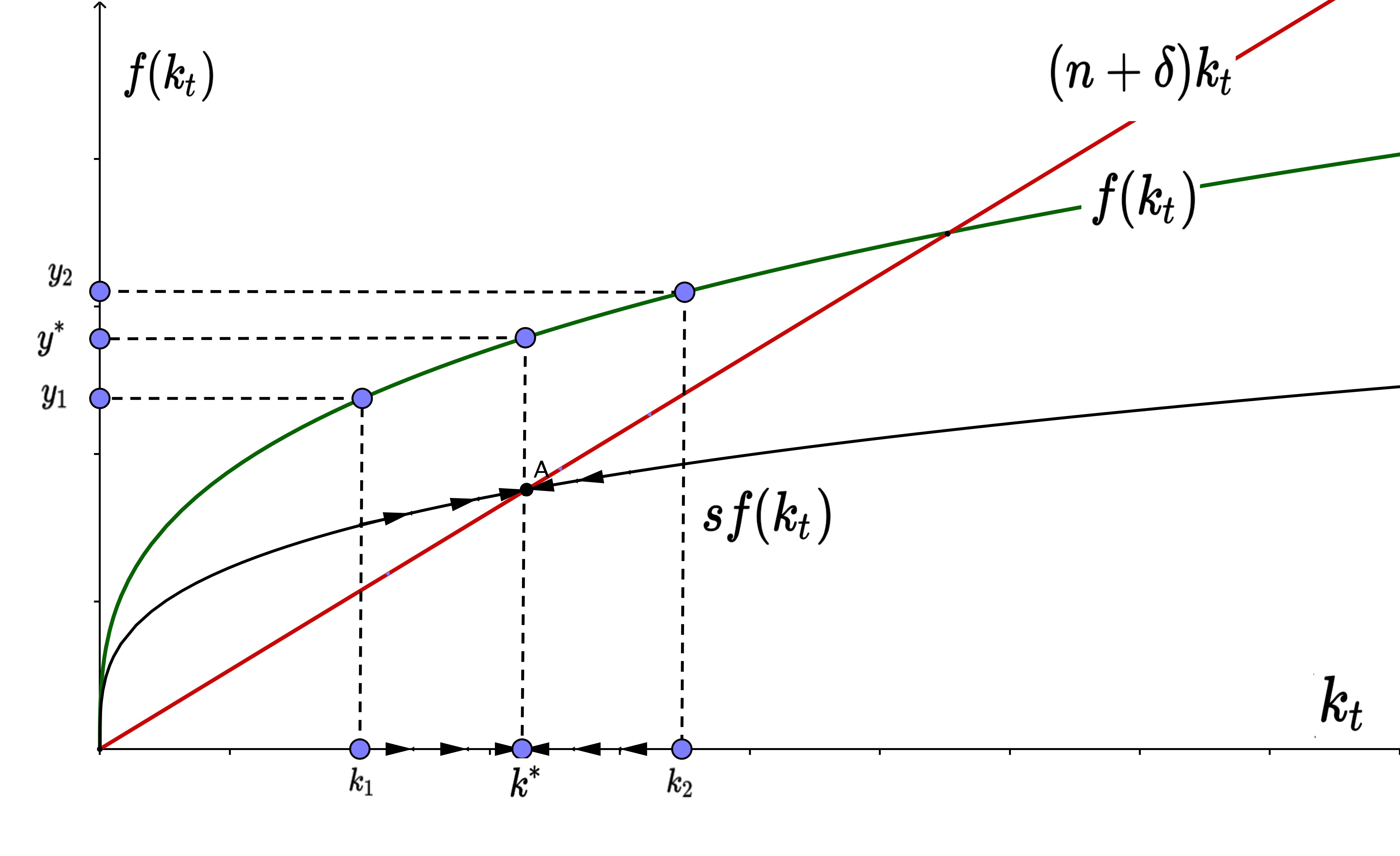 Solow model